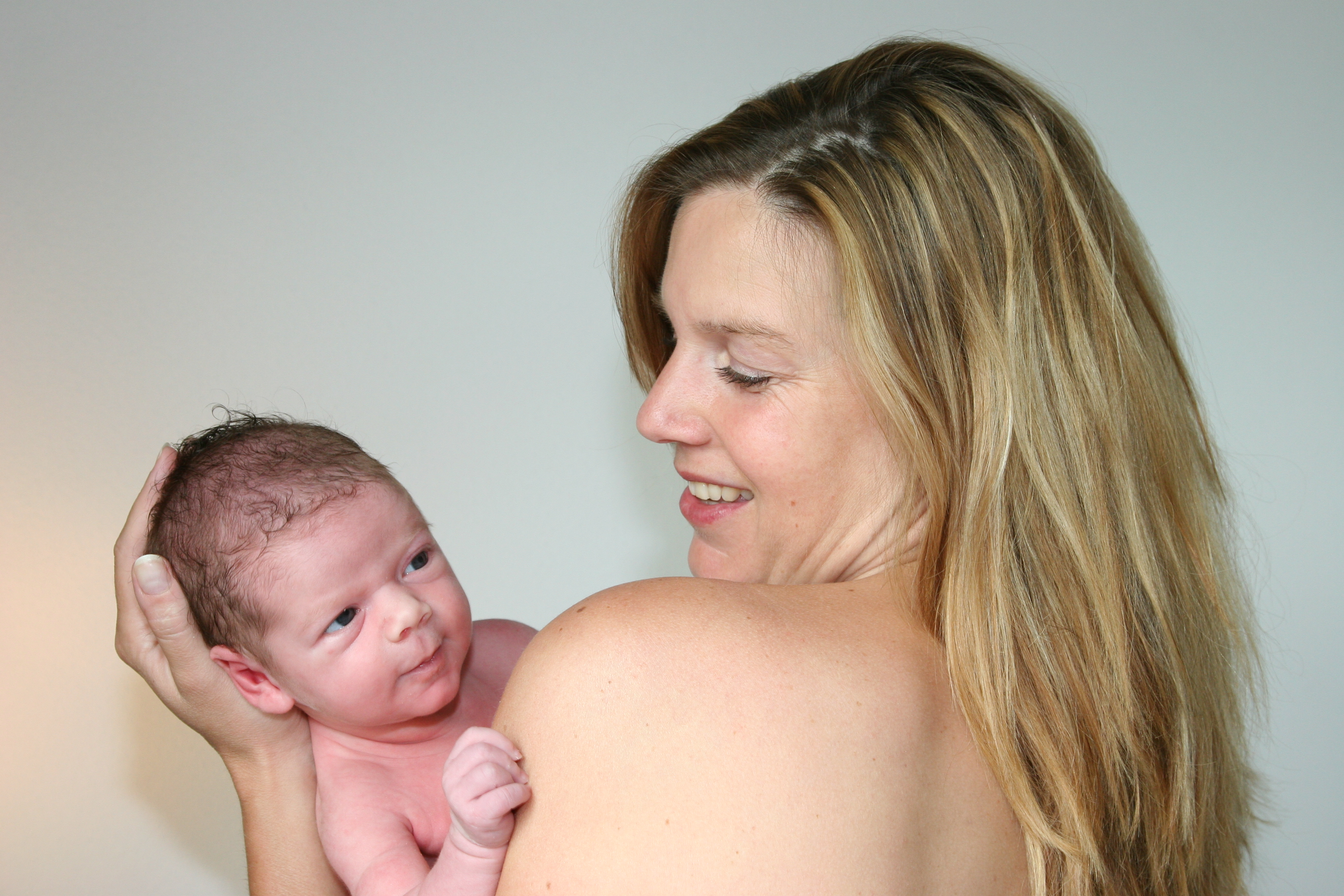 Born on the 7th of the 8th in 2008. Welcome to the world, Zoë !